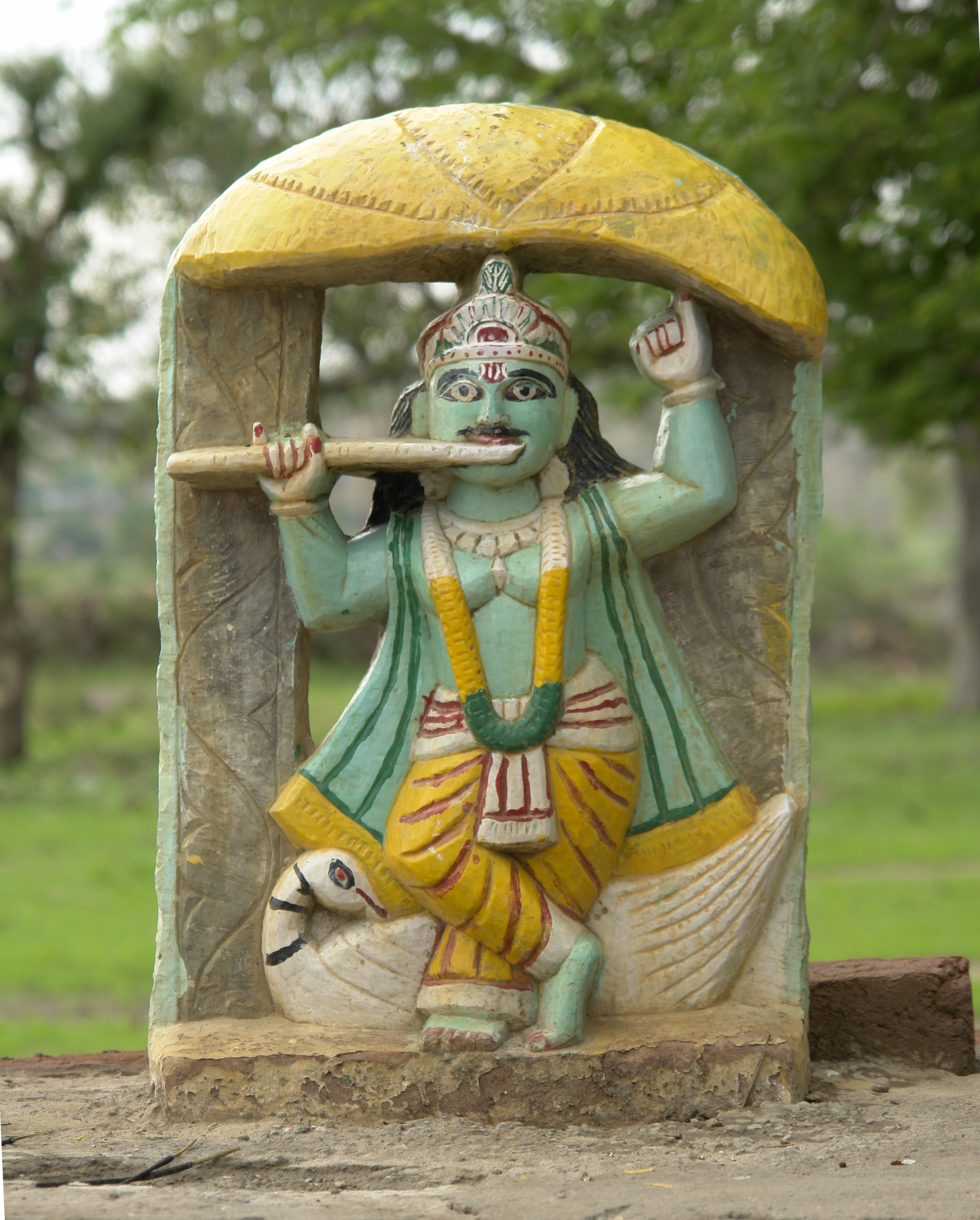 Krishna statue, Chambal, M.P., India.